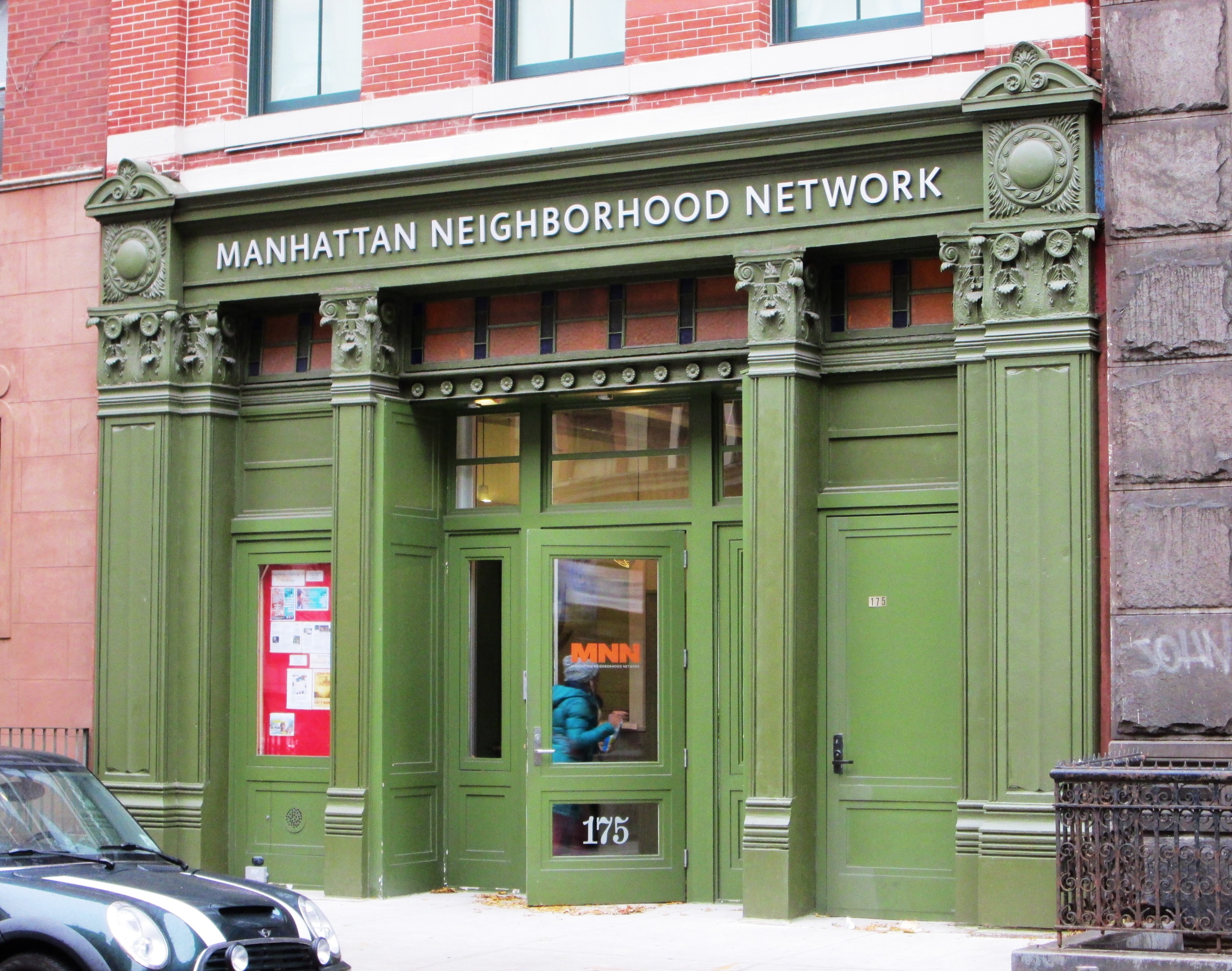 The former Fire Engine Company No. 53 station house, at 175 East 104th Street between Third and Lexington Avenues in the East Harlem neighborhood of Manhattan, New York City, was built in 1883-84 and was designed by Napoleon LeBrun & Sons incorporating elements of the Queen Anne and Romanesque Revival styles. The firm designed numerous firehouse for the New York Fire Department, often adapting one plan for multiple locations; in this case, the firehouses at 29 Henry Street and at 304 West 47th Street have largely identical facades. The building has a cast-iron base. It was used as a firehouse until 1974, and is now the headquarters of the Manhattan Neighborhood Network public access channels. (Source: "NYCLPC Designation Report")